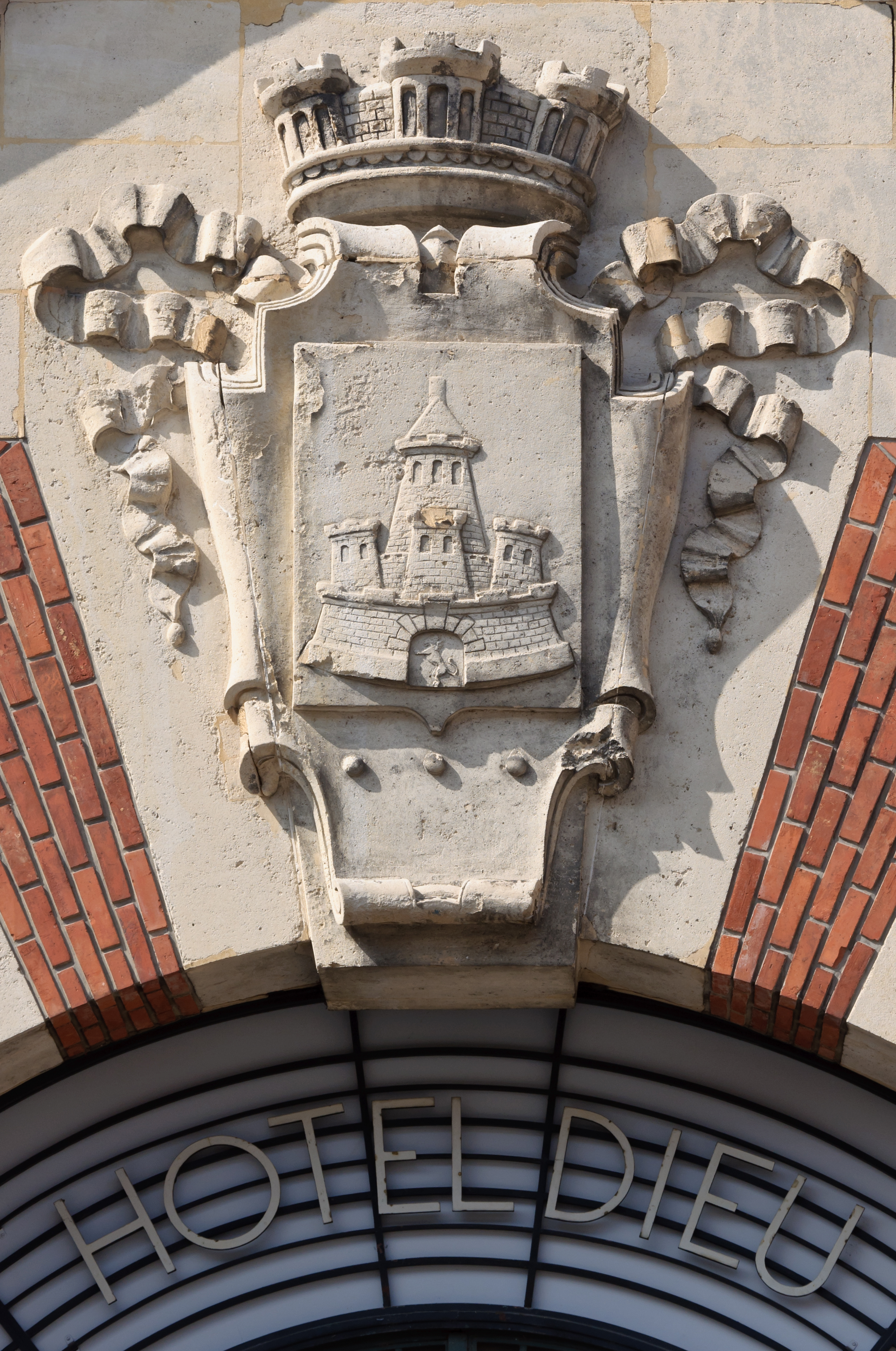 Relief of coat of arms of Provins, Seine-et-Marne, France, on the portal of the Hôtel-Dieu in Cristophe-Opoix street.